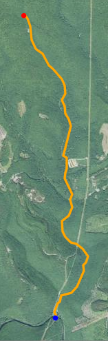 A map of the stream Twomile Run in Clinton County, Pennsylvania at a 1:72224 scale. The red dot is the source and the blue dot is the mouth. Data available from U.S. Geological Survey, National Geospatial Program.